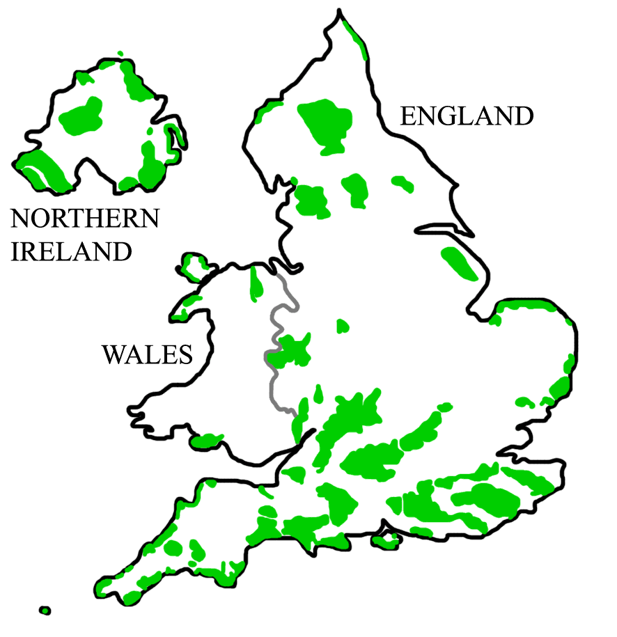 A map of all Areas of Outstanding Natural Beauty (AONB) in England, Wales, and Northern Ireland. Contents 1 Licensing 2 History of Image:AONBSUK.jpg 3 Licensing 4 Original upload log Licensing History of Image:AONBSUK.jpg 2008-08-31T04:40:48Z Bkell (Talk